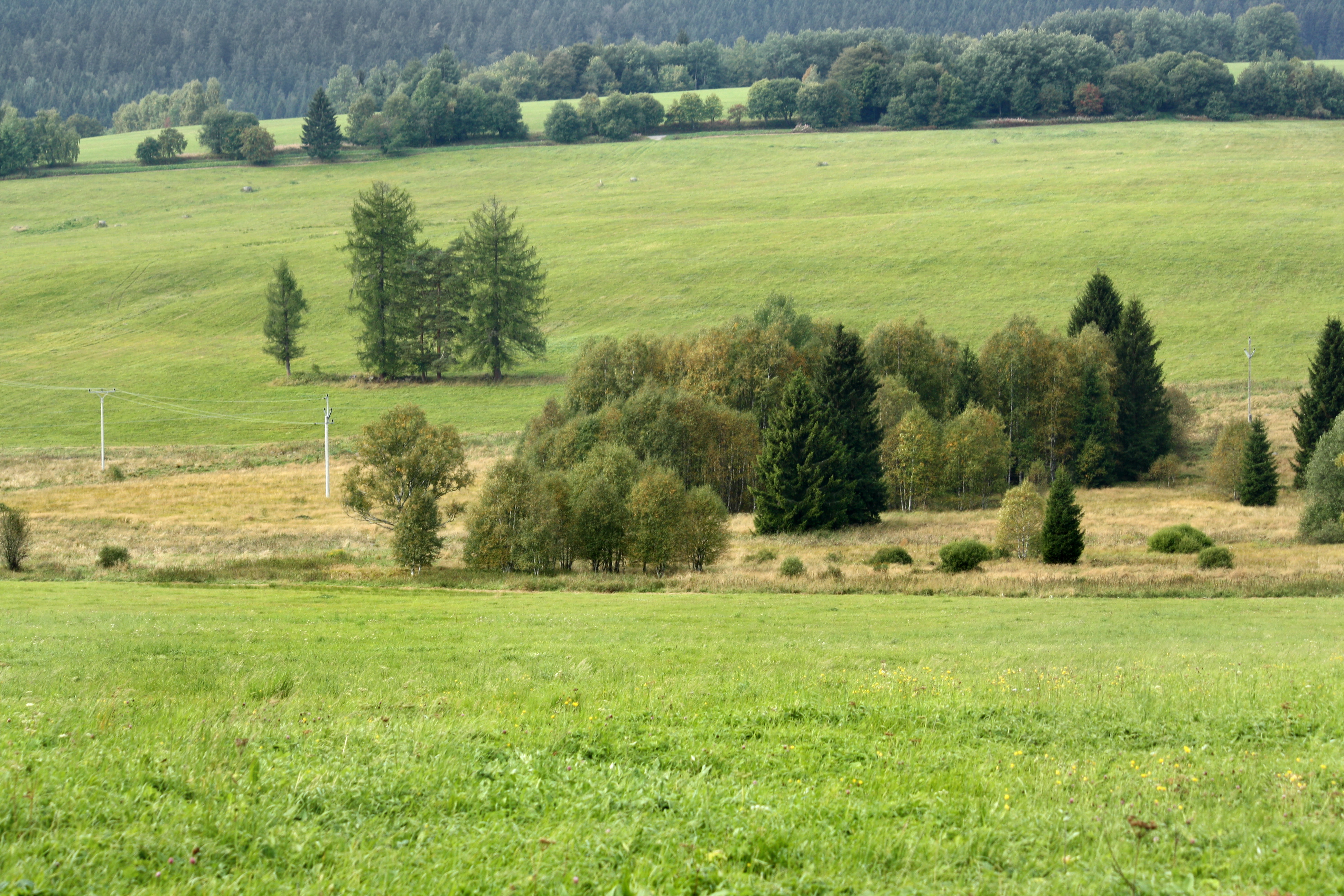 Pasecká slať natural reserve near Borová Lada and Nové Hutě, Czech Republic. View from Paseka village.